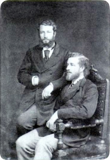 The Prince Ludwig August of Saxe-Coburg-Koháry and his cousin the Duke of Penthièvre.